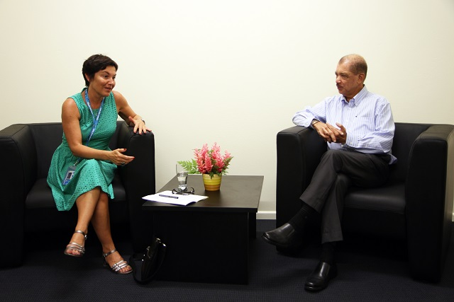 French Secretary of State for Development and La Francophonie in the Ministry of Foreign Affairs and International Development, Annick Girardin and the Seychelles President James Michel.